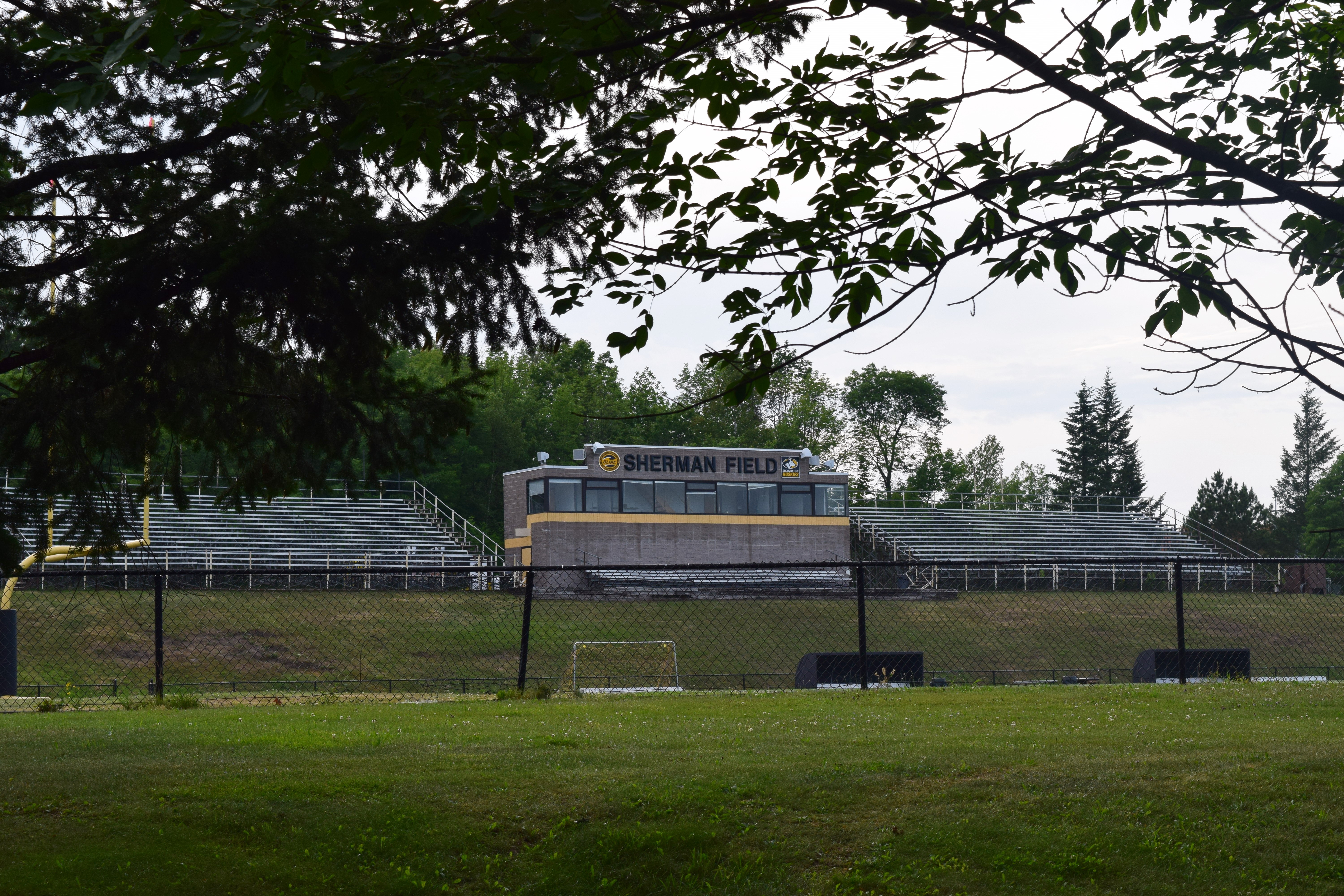 Sherman Field, the home football field of the Michigan Tech Huskies.